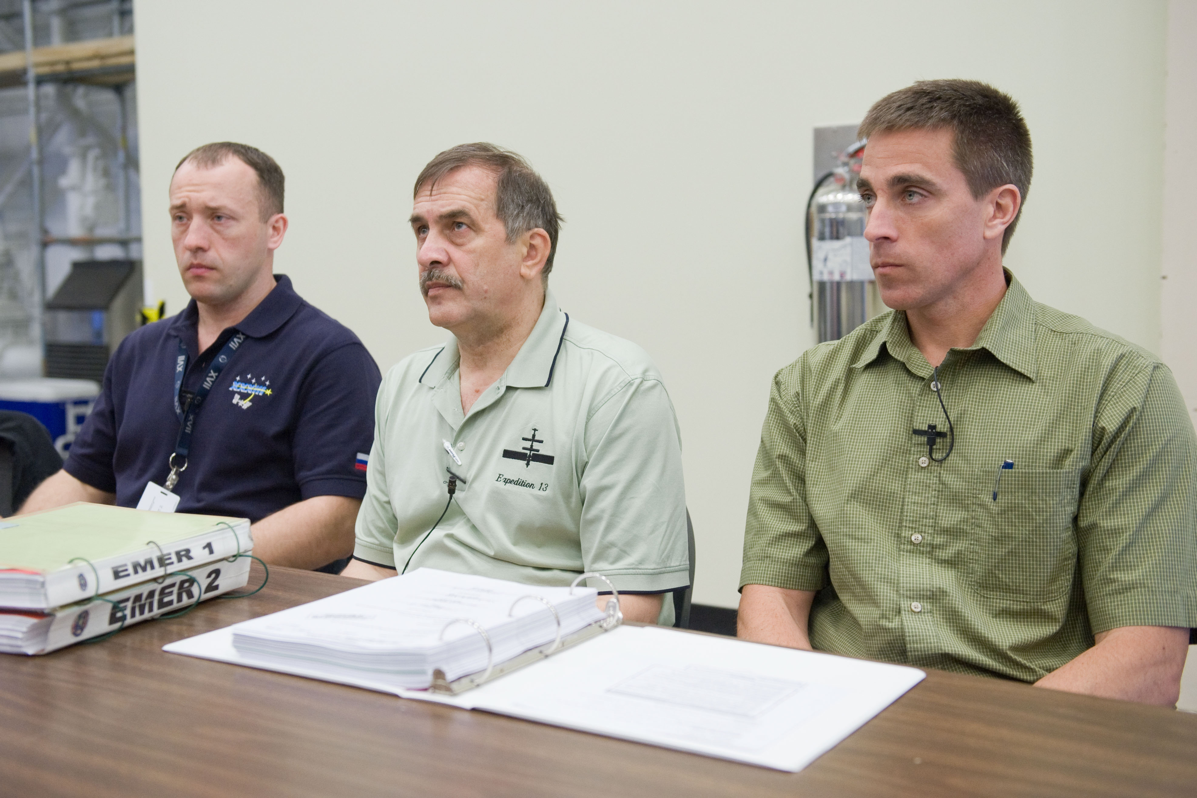 Russian cosmonaut Pavel Vinogradov (center), Expedition 35 flight engineer and Expedition 36 commander; along with NASA astronaut Chris Cassidy (right) and Russian cosmonaut Alexander Misurkin, both Expedition 35/36 flight engineers, are pictured during an emergency scenario training session in the Space Vehicle Mock-up Facility at NASA's Johnson Space Center.